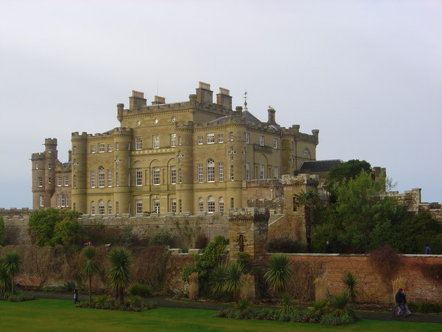 Culzean Castle.